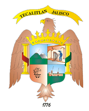 teca coat of arms